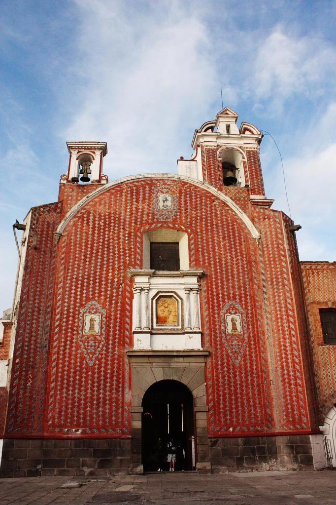 Saint Anthony of Padua Convent, Puebla city, Puebla state, Mexico